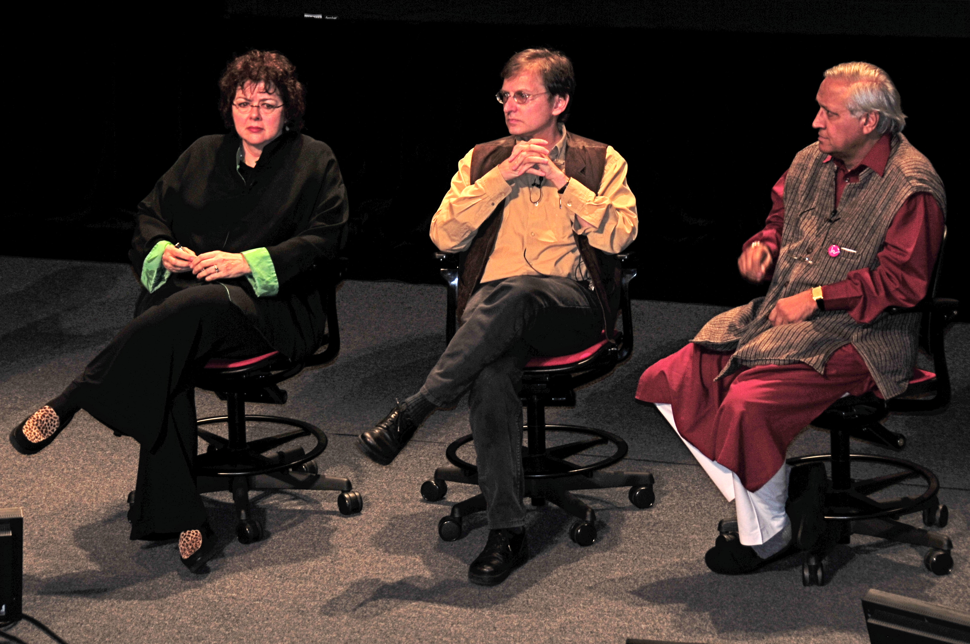 Laurie Garrett, W. Ian Lipkin and Bunker Roy during the Q&A period at the end of the first session on the morning of Day 3 of PopTech.